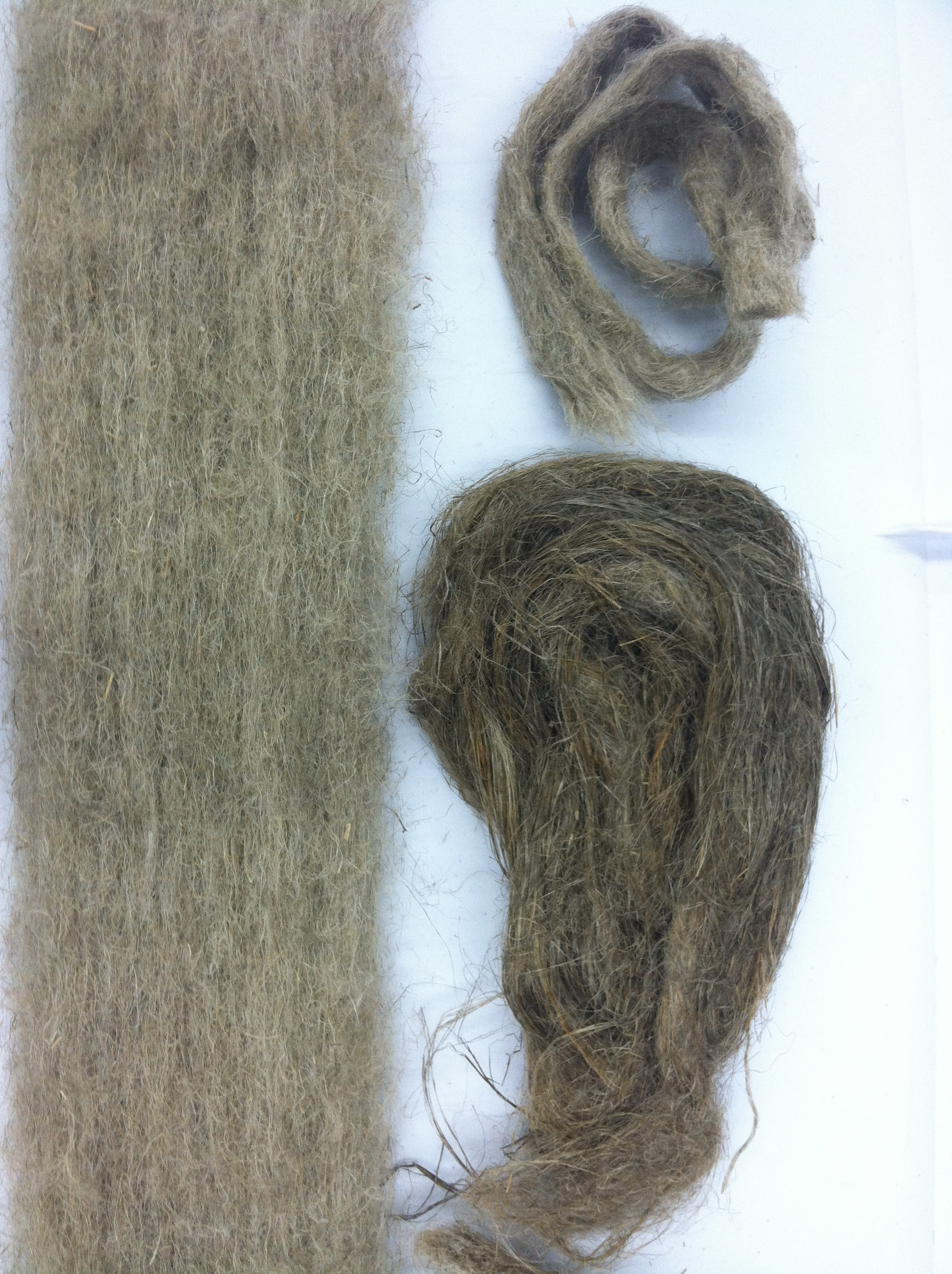 Different forms of flax fibers